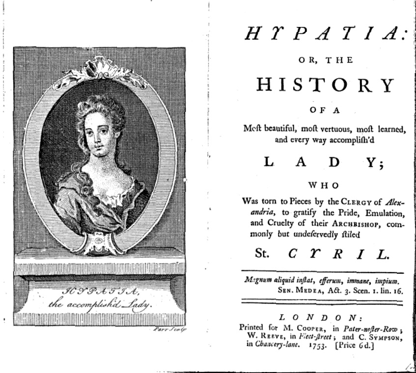 Frontispiece and title page to John Toland's anti-Catholic tract Hypatia: Or the History of a most beautiful, most vertuous, most learned, and every way accomplish’d Lady, published 1720, republished 1753